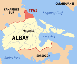 Locator map of Tiwi in Albay, Philippines.